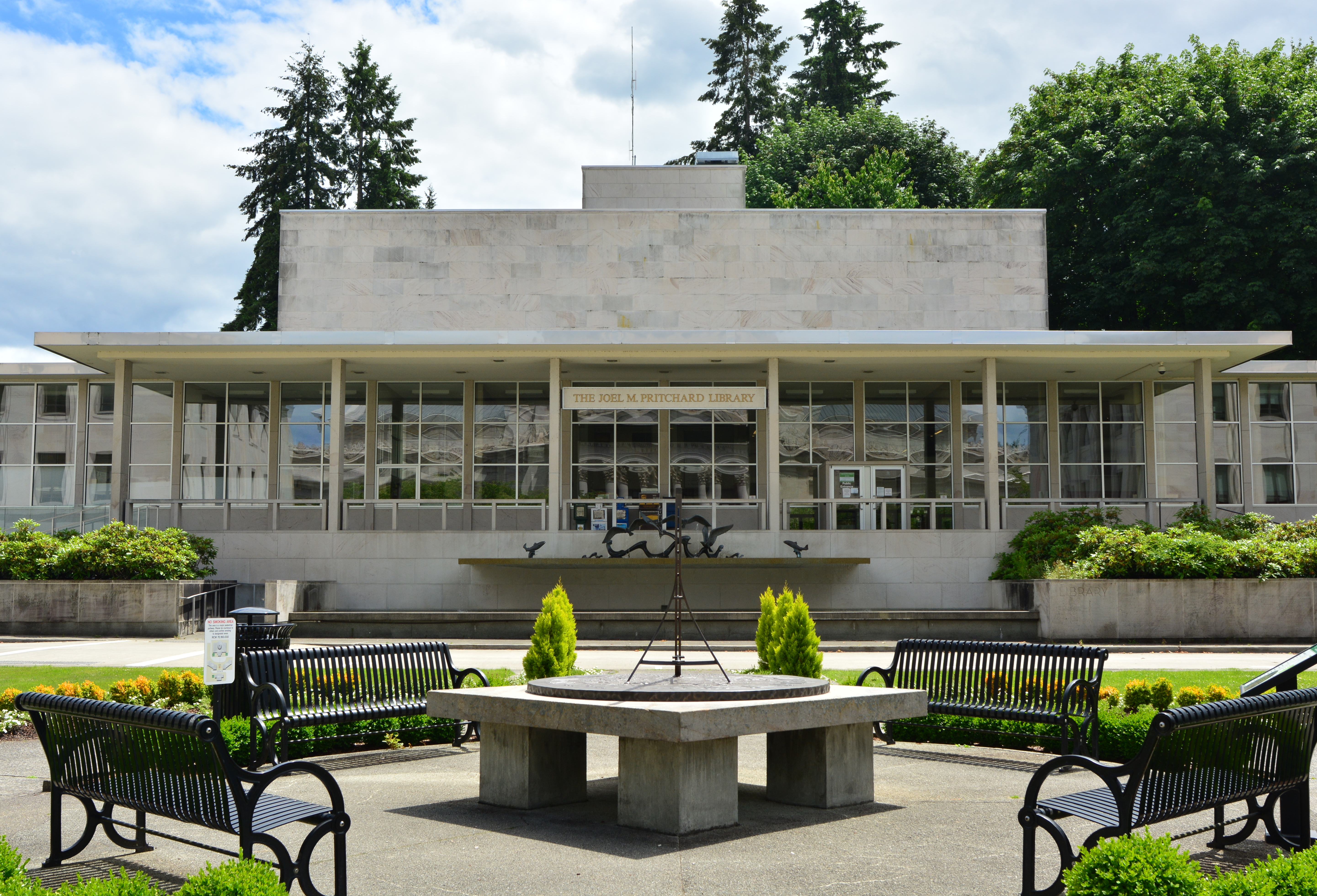 Joel M. Pritchard Building, part of the Washington State Capitol complex, on a rainy day.